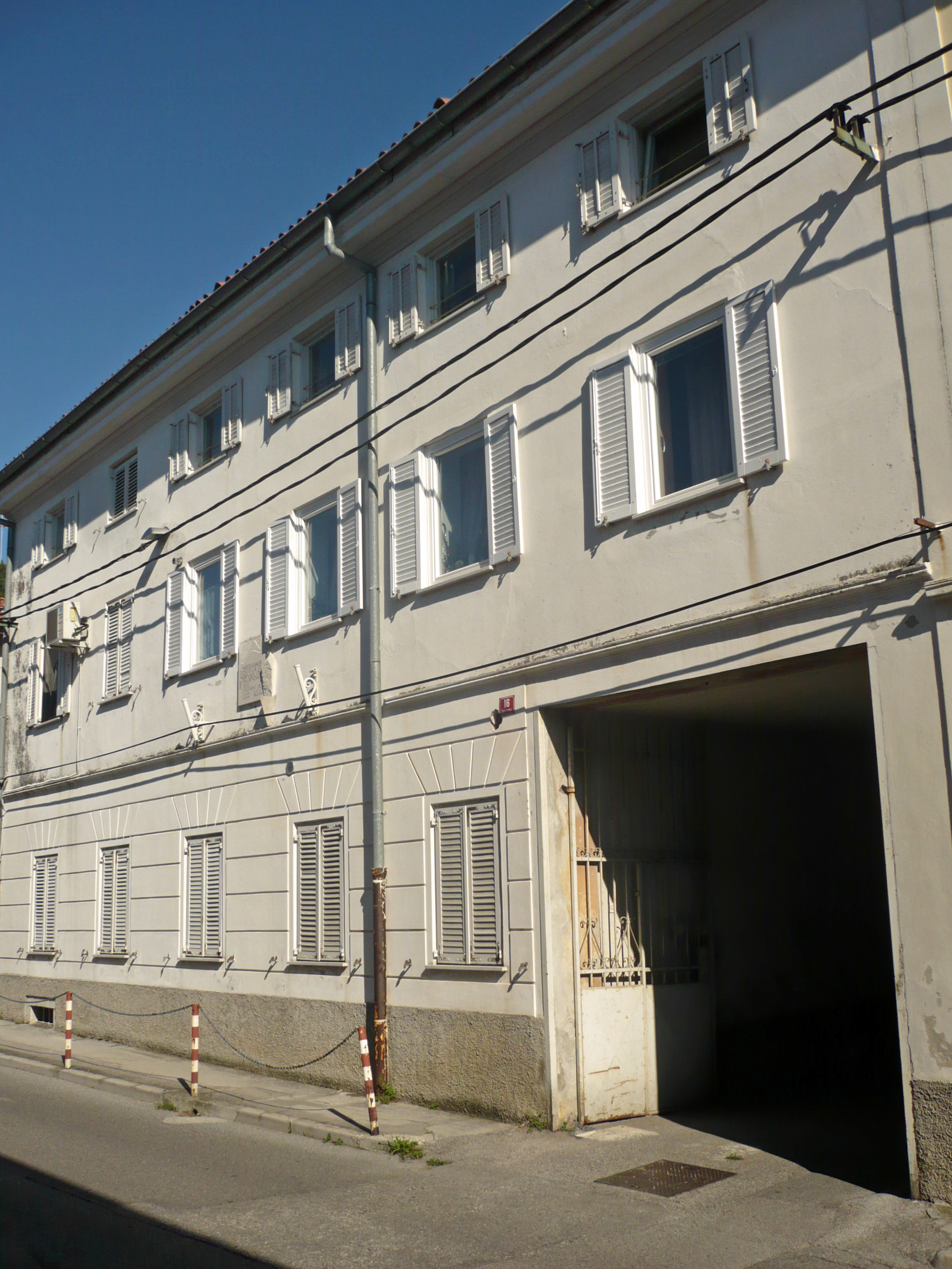 The birth house of the Slovenian philosopher Klement Jug in Solkan, municipality of Nova Gorica, Slovenia.